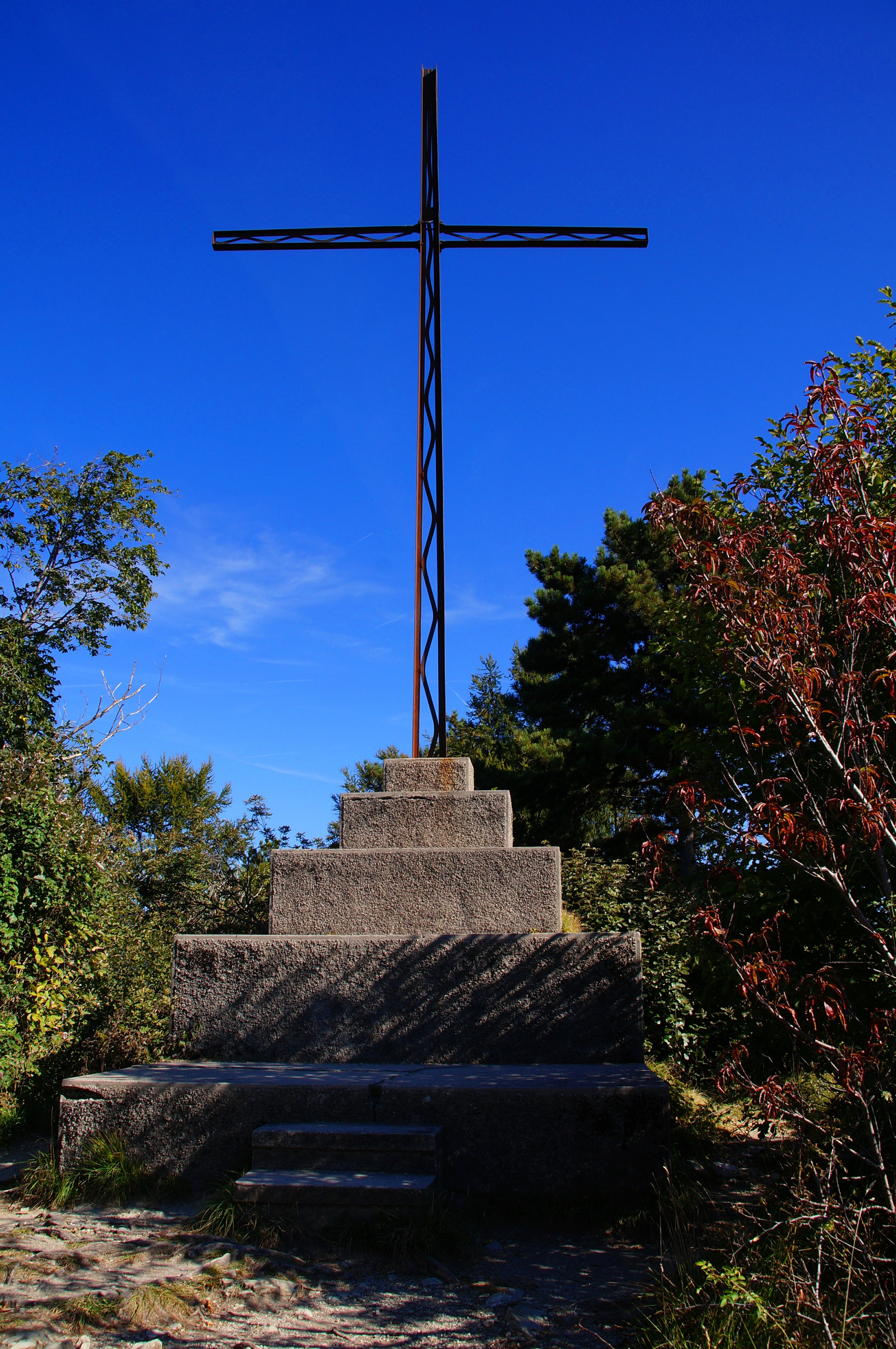 View of the cross on the summit of Monte Castello in Tignale (Gardola).